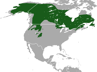 Canada Lynx (Lynx canadensis) range